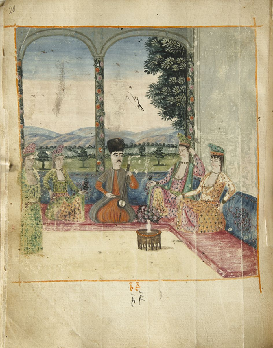 Armenian poet and musician of 17th-18th centuries Naghash Hovnatan